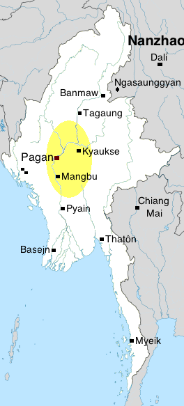 Principality of Pagan at Anawrahta's accession in 1044 (Polish geographical names)